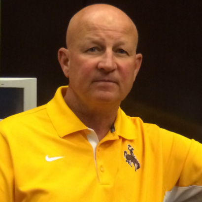 Craig Bohl, head coach of the Wyoming Cowboys football team, at the 2016 Mountain West Conference Media Days in the The Cosmopolitan in Las Vegas.